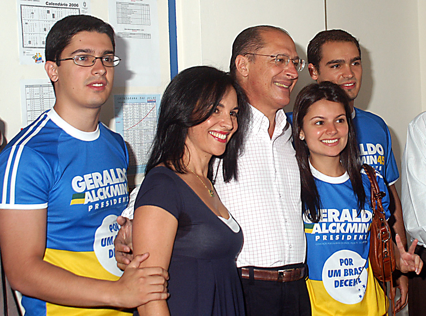 Geraldo Alckmin, Brazilian politician, wife and sons and daughter.